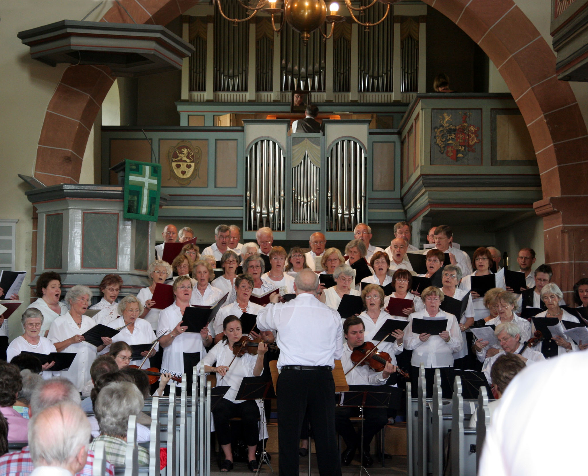 The protestant church of Zwingenberg (Hesse, Germany).